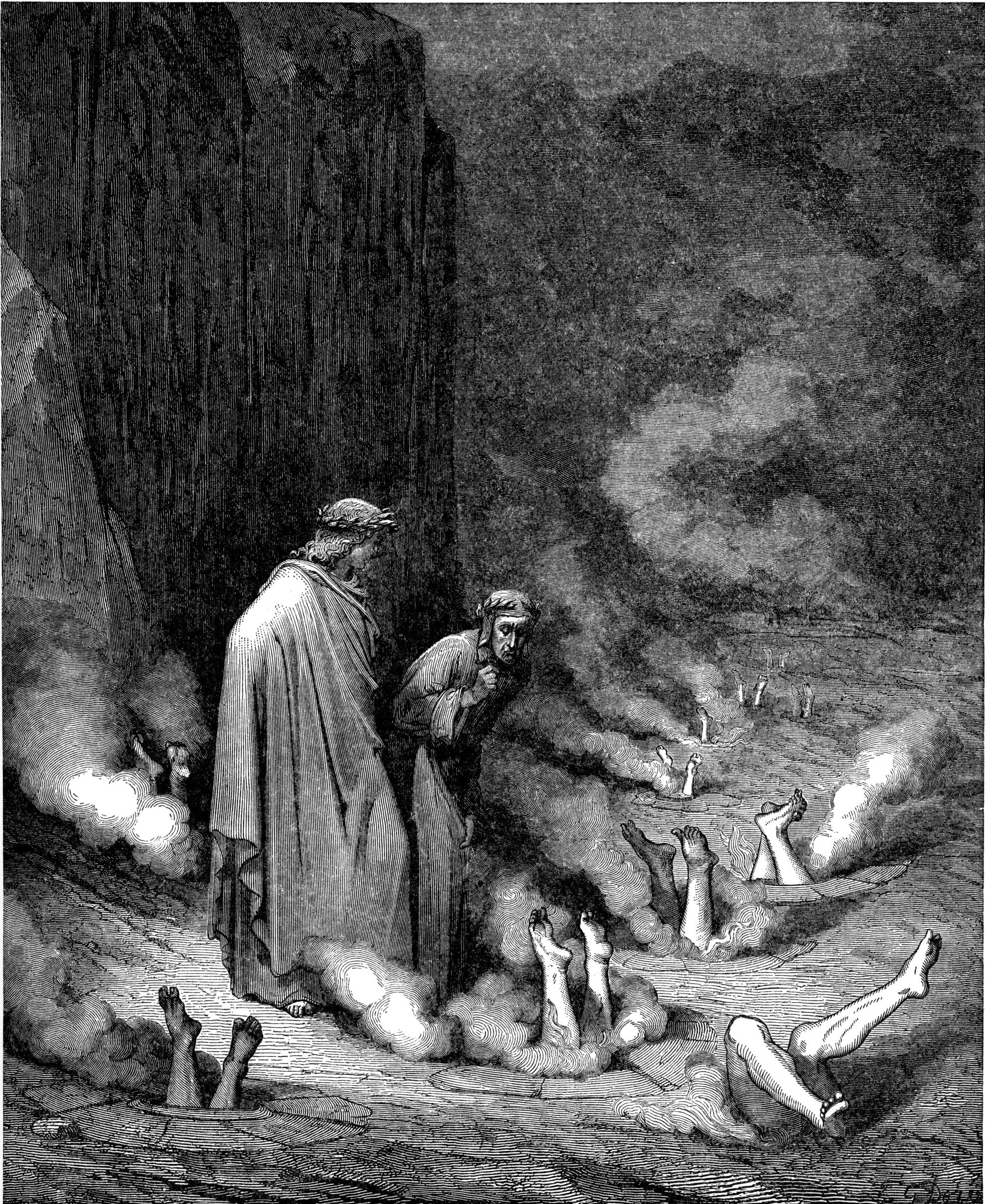 High resolution scan of engraving by Gustave Doré illustrating Canto XIX of Divine Comedy, Inferno, by Dante Alighieri. Caption: Dante addresses Pope Nicholas III